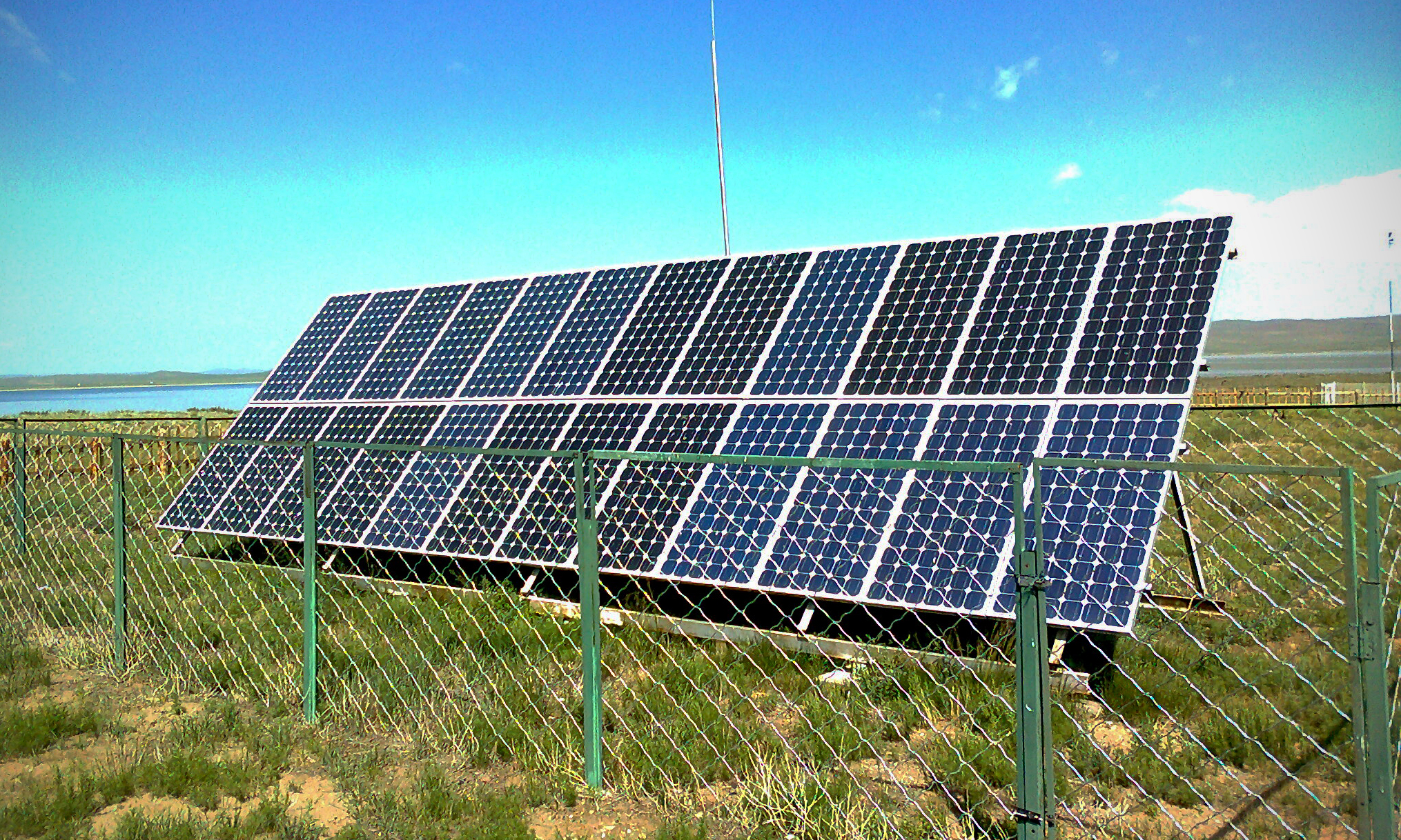 Solar panel installation at an information center adjacent to Ögii Lake